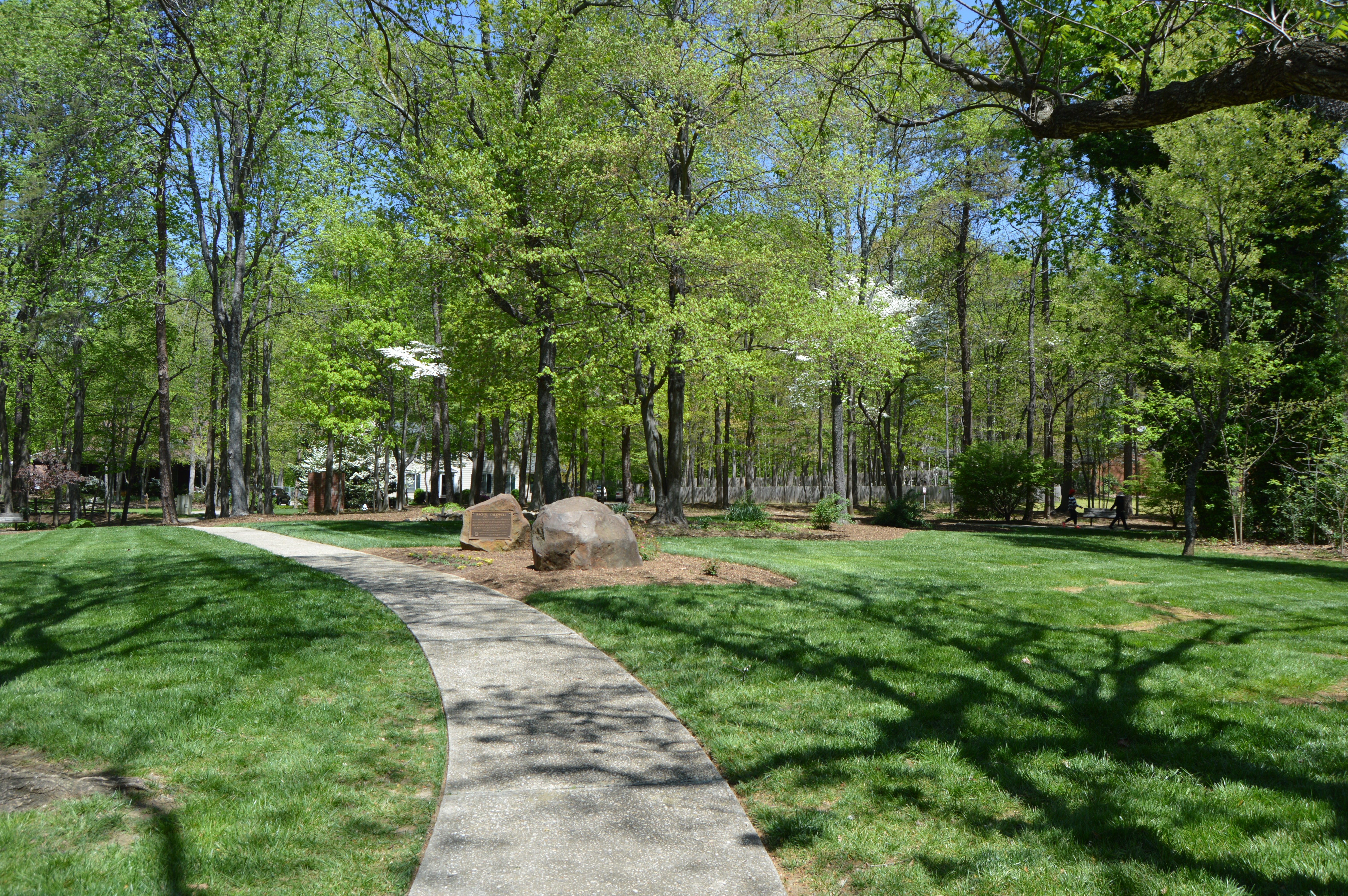 A lawn in the Tanger Bicentennial Gardens, located off Cornwallis Drive in Greensboro, North Carolina, United States. Once occupied by an early Presbyterian seminary (commemorated by the plaques on the large stones at the center of the picture, the site is listed on the National Register of Historic Places as an archaeological site.